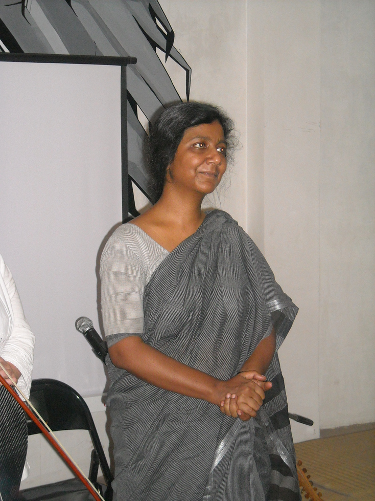 Moushumi has lived in many places since her childhood, including Shillong, Shantiniketan, Kolkata and London, and extensively travelled in Bangladesh, and learned music from her teachers, gramophone records and tapes and encounters with people. She began writing songs in Bangla nearly two decades ago and has recorded with labels such as HMV and Times Music. Moushumi’s voice and music have a great power to move and some of her compositions such as Jessore Road and Shopno Dekhbo Bole have become like anthems for the Bengali people